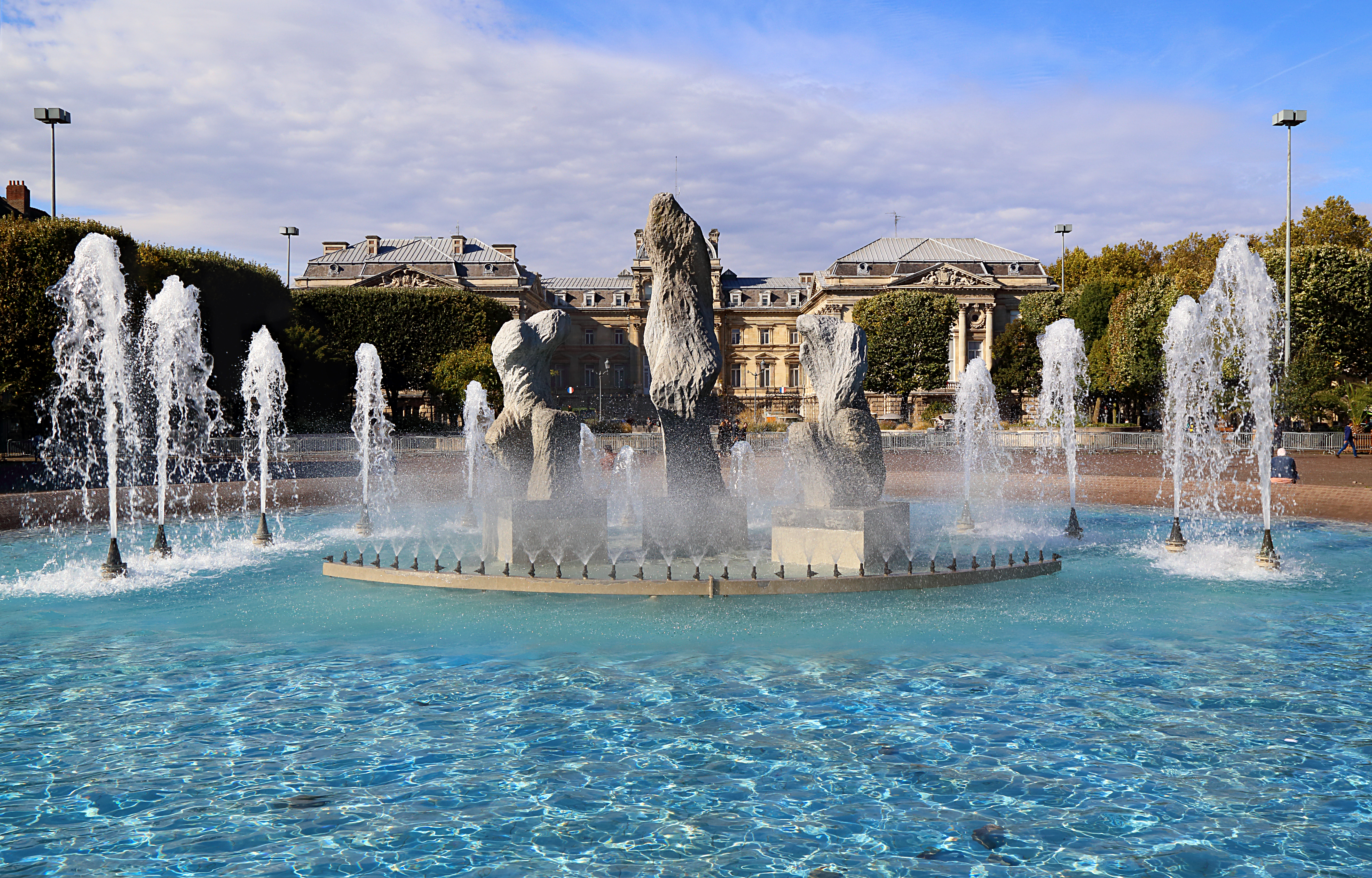 The fontain of the place de la République in Lille, France. In the background, the prefecture.